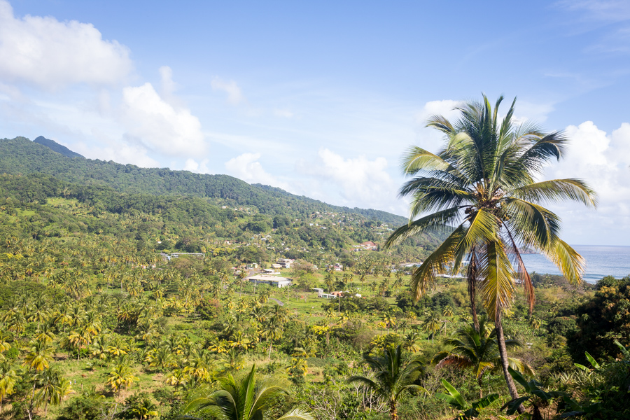 The village Castle Bruce at the east coast of Dominica